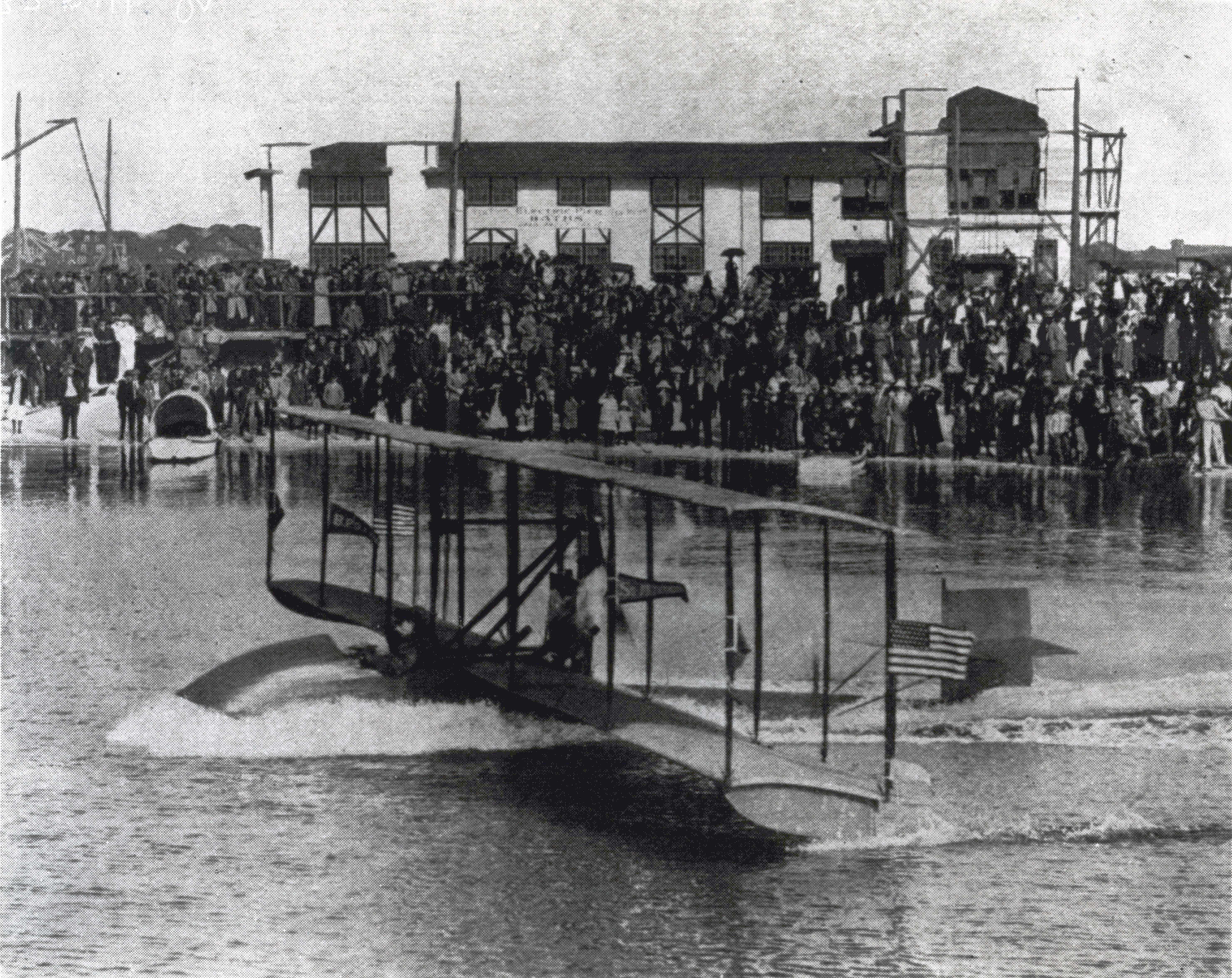 A Benoist XIV flying boat on Tampa Bay begins its takeoff run for the first flight by a scheduled airline in history, flying for the St. Petersburg-Tampa Airboat Line, which operates between St. Petersburg and Tampa, Florida.